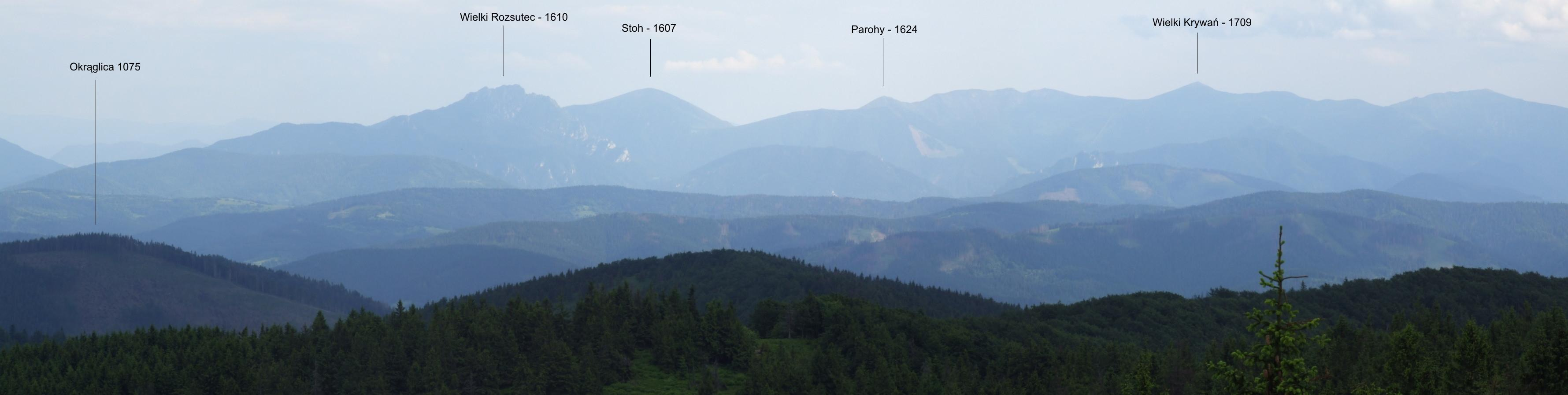 Malá Fatra (Lesser Fatra) - view from Wielka Racza mount